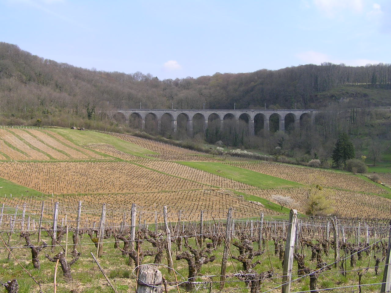 Viaduct of Montigny-lès-Arsures, Jura, France.